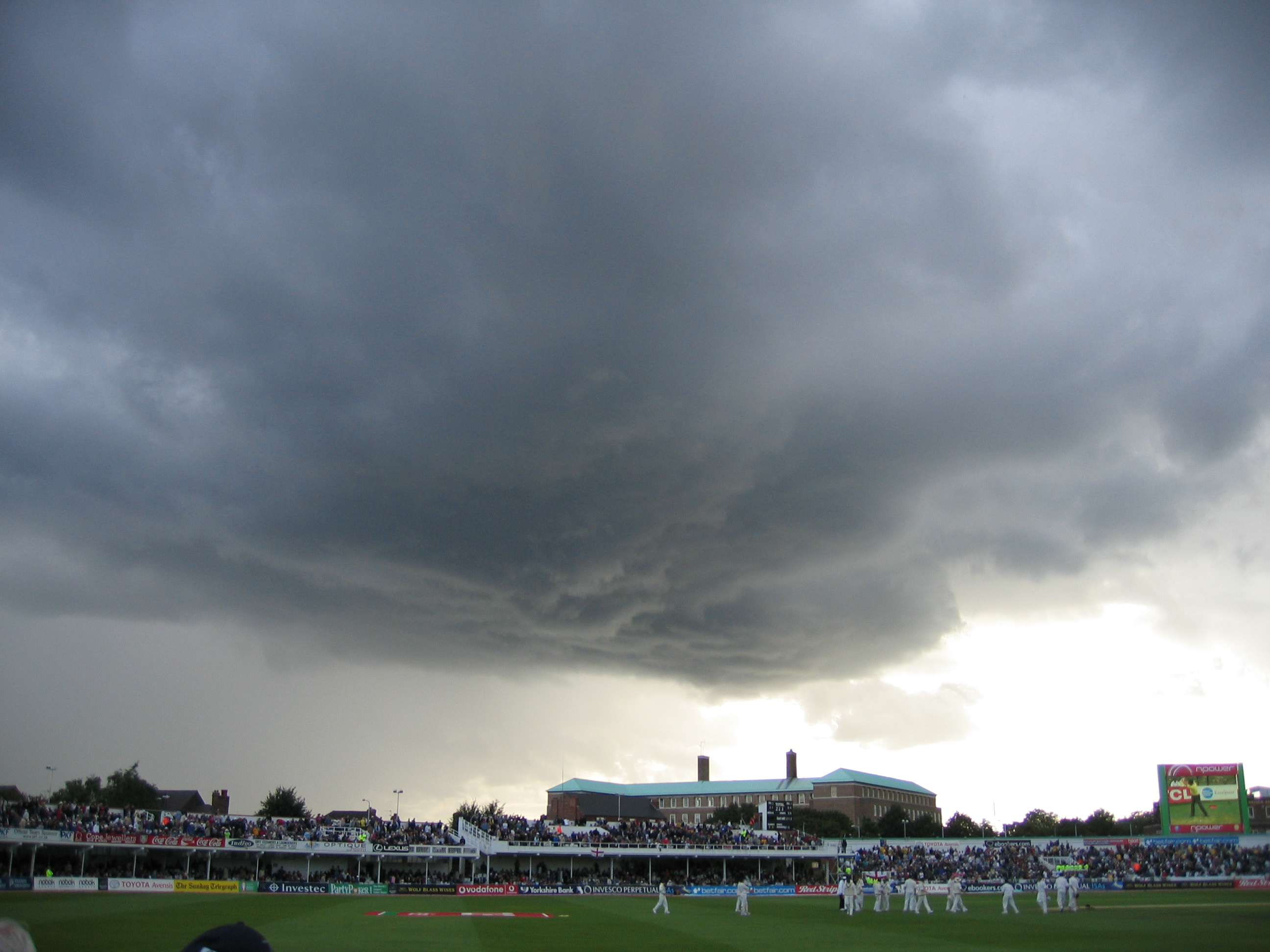 "Author : Craig Cameron (me) taken at Trent Bridge 26/8/2005, happy for anyone to use it."